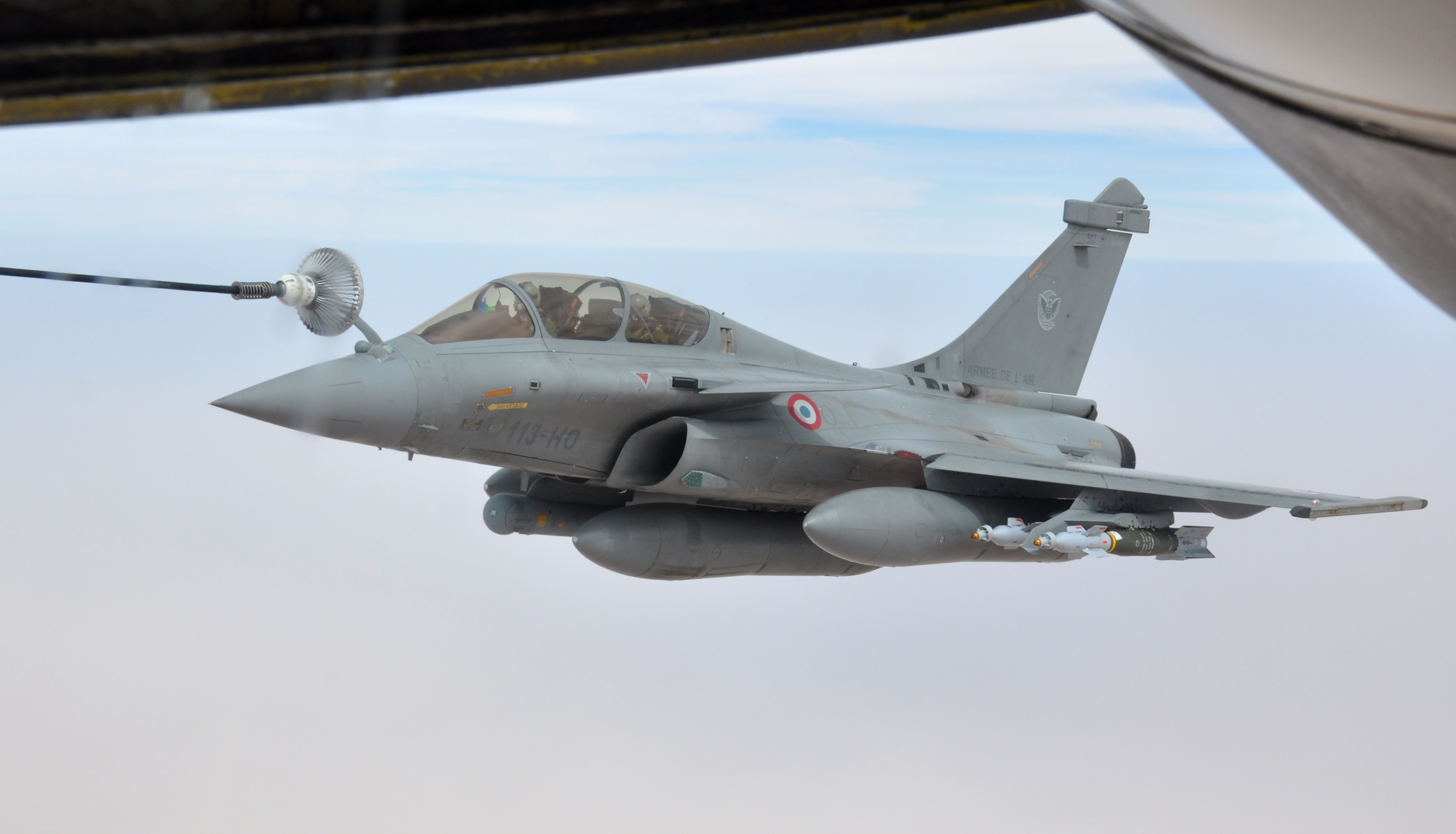 A French fighter aircraft Rafale B 113-HO of squadron 2/92 "Aquitaine" refuels from a KC-135 Stratotanker flown by the 351st Expeditionary Air Refueling Squadron during a March 17, 2013, mission. 1730 10:30:50